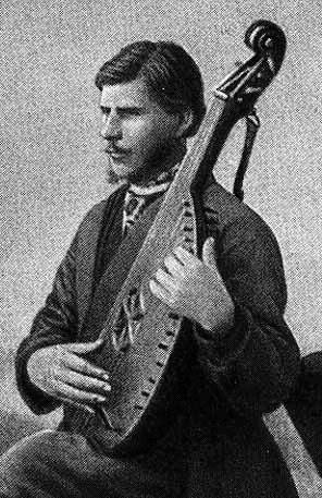 KOBZAR Ivan Kuchuhura-Kucherenko